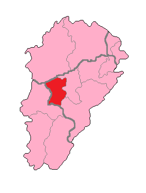 Map of Doubs' 1st Constituency shown within Franche-Comté.